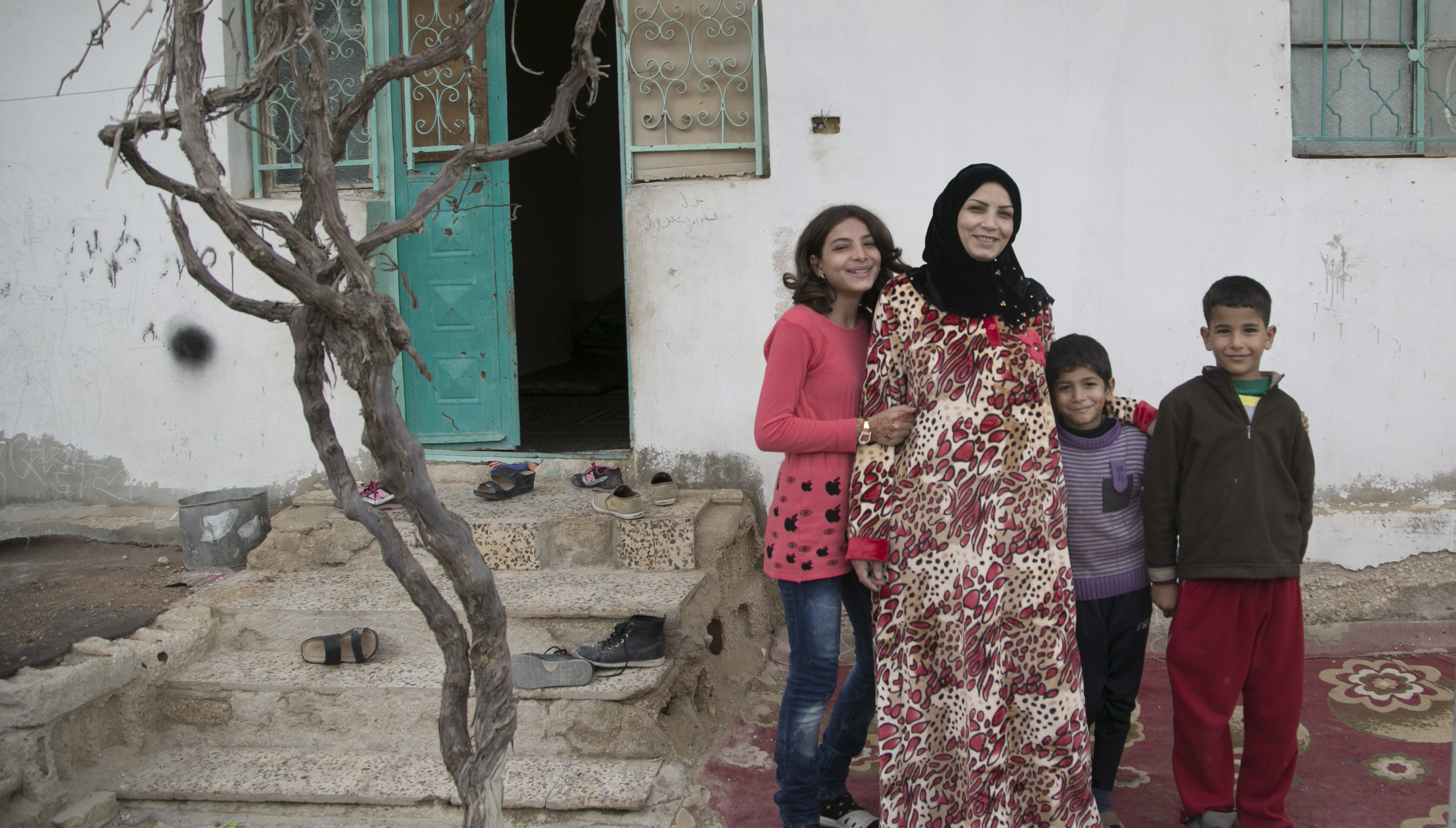 Ghoussoon and Family from Salam Neighbor Film - Syria refugee crisis camp